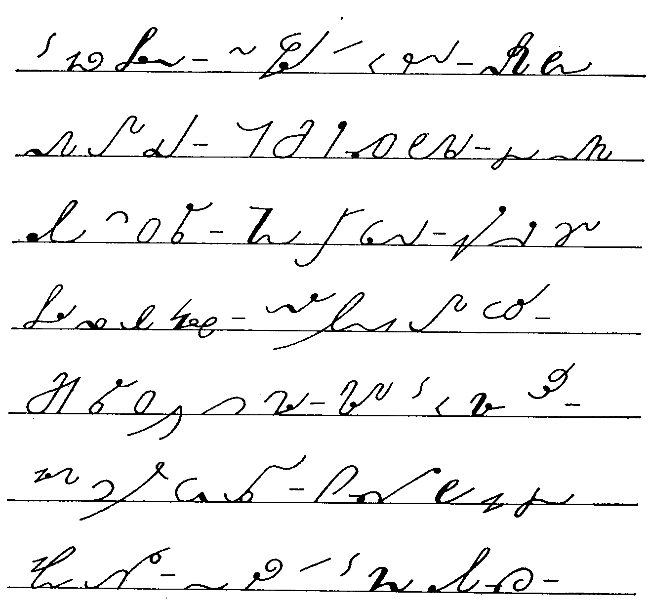 Example of Jozef Polinski Shorthand